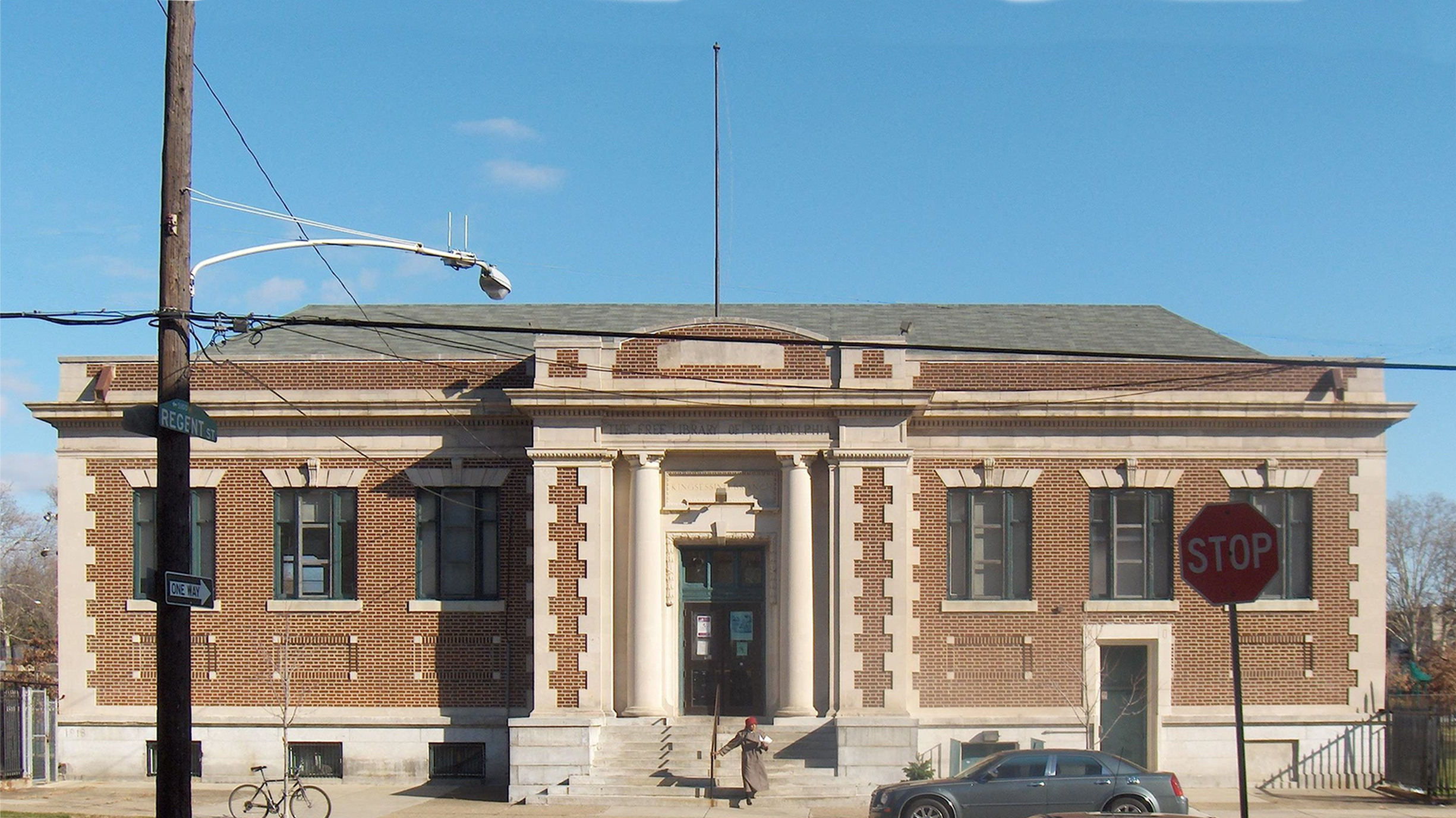 Free Library of Philadelphia, Kingsessing Branch Library, 1201 South 51st Street, Philadelphia, Pennsylvania 19143